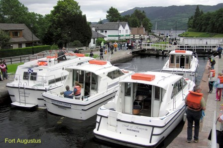 Caledonian Canal